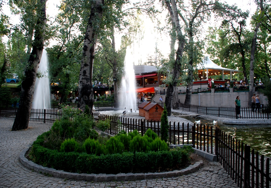 Kuğulu Park in Ankara